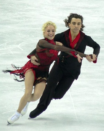 Kristin Fraser and Igor Lukanin at the 2005 European Figure Skating Championships